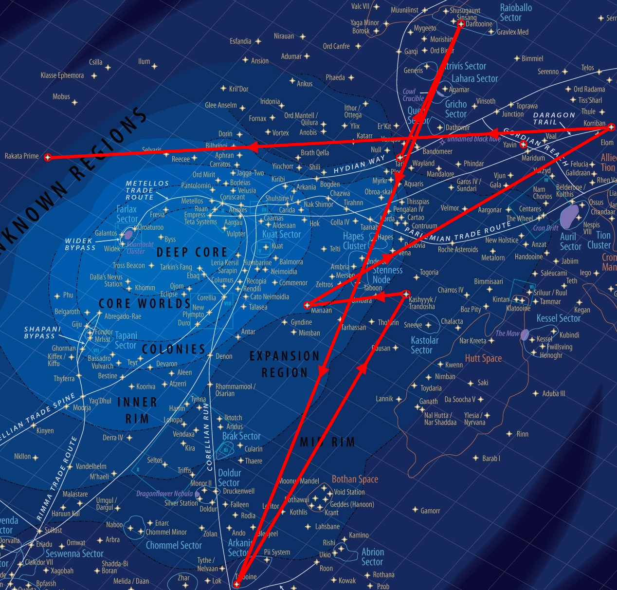 Star Wars: Knights of the Old Republic Quest map based on File:Galaxymap p1.jpg